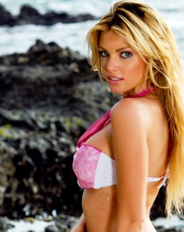 Tamara Witmer publicity photo